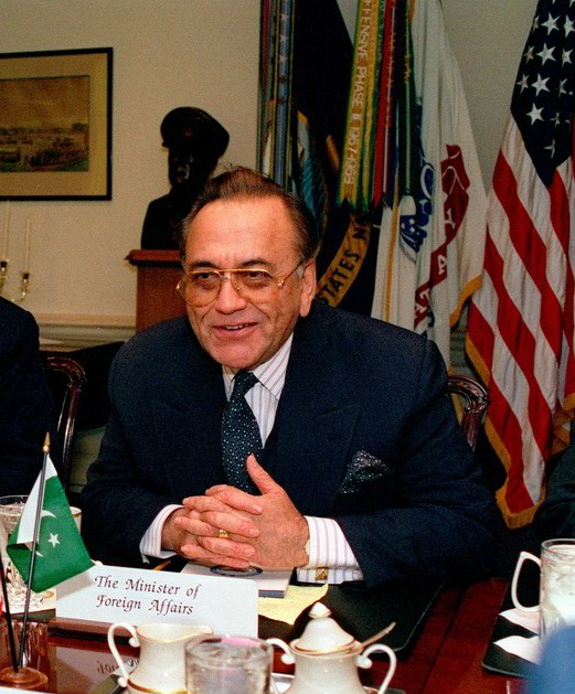 Pakistani Minister of Foreign Affairs Mian Khurshid Mahmud Kasuri (right) meets with Secretary of Defense Donald H. Rumsfeld (foreground) in the Pentagon on January 27, 2003. The two men are meeting to discuss a range of bilateral security issues of interest to both nations. (cropped)]